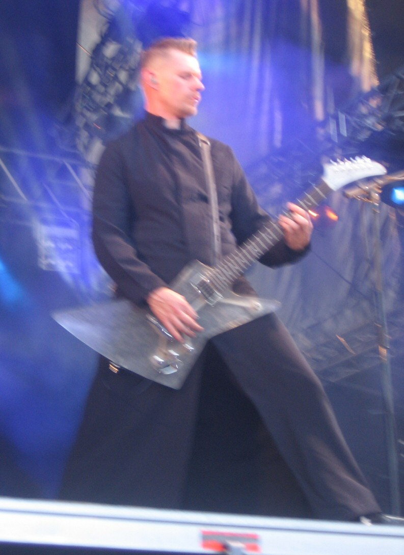 Crap (Oomph!) at Ruisrock 2006 (Turku, Finland).